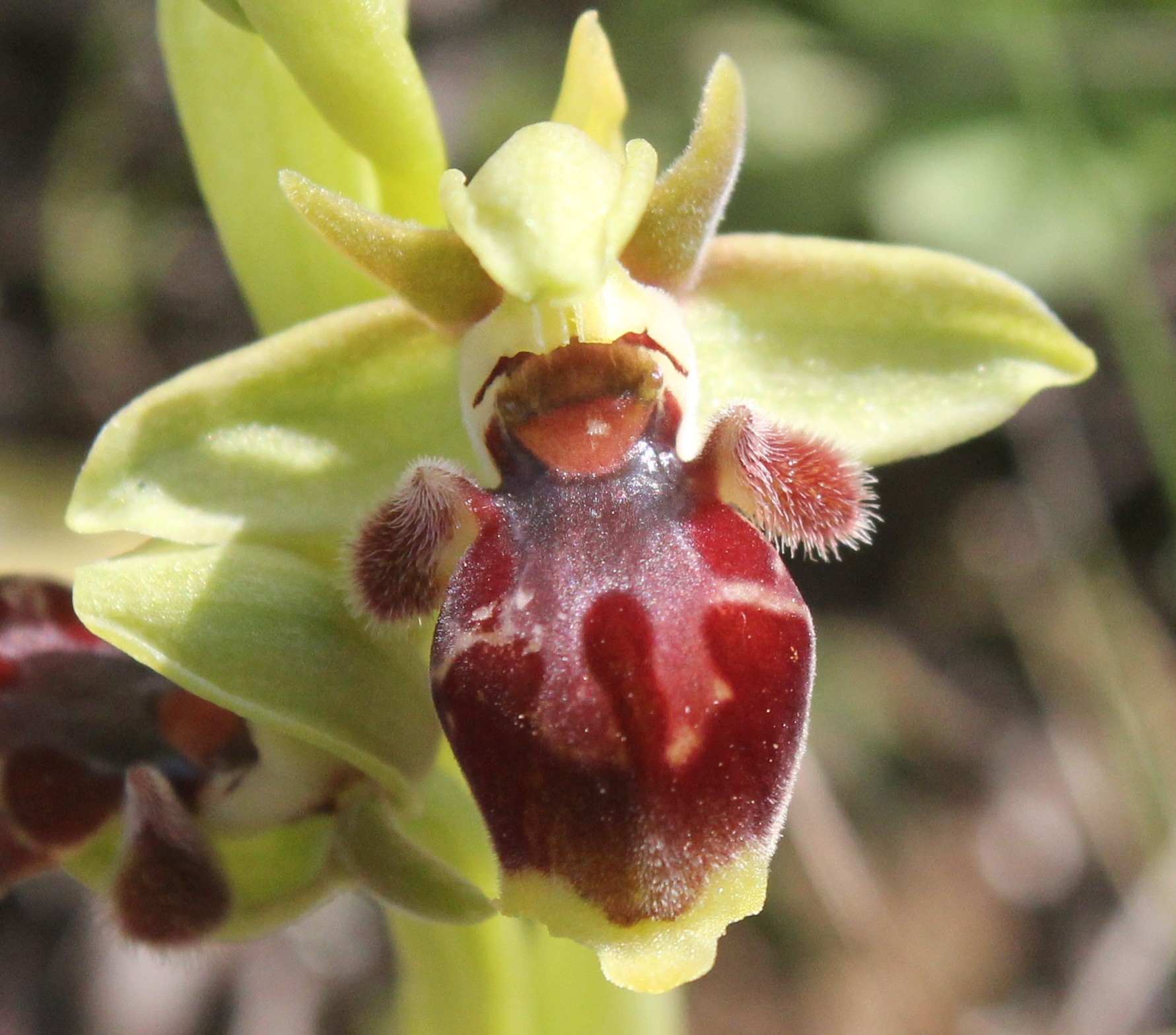 Ophrys umbilicata labellum